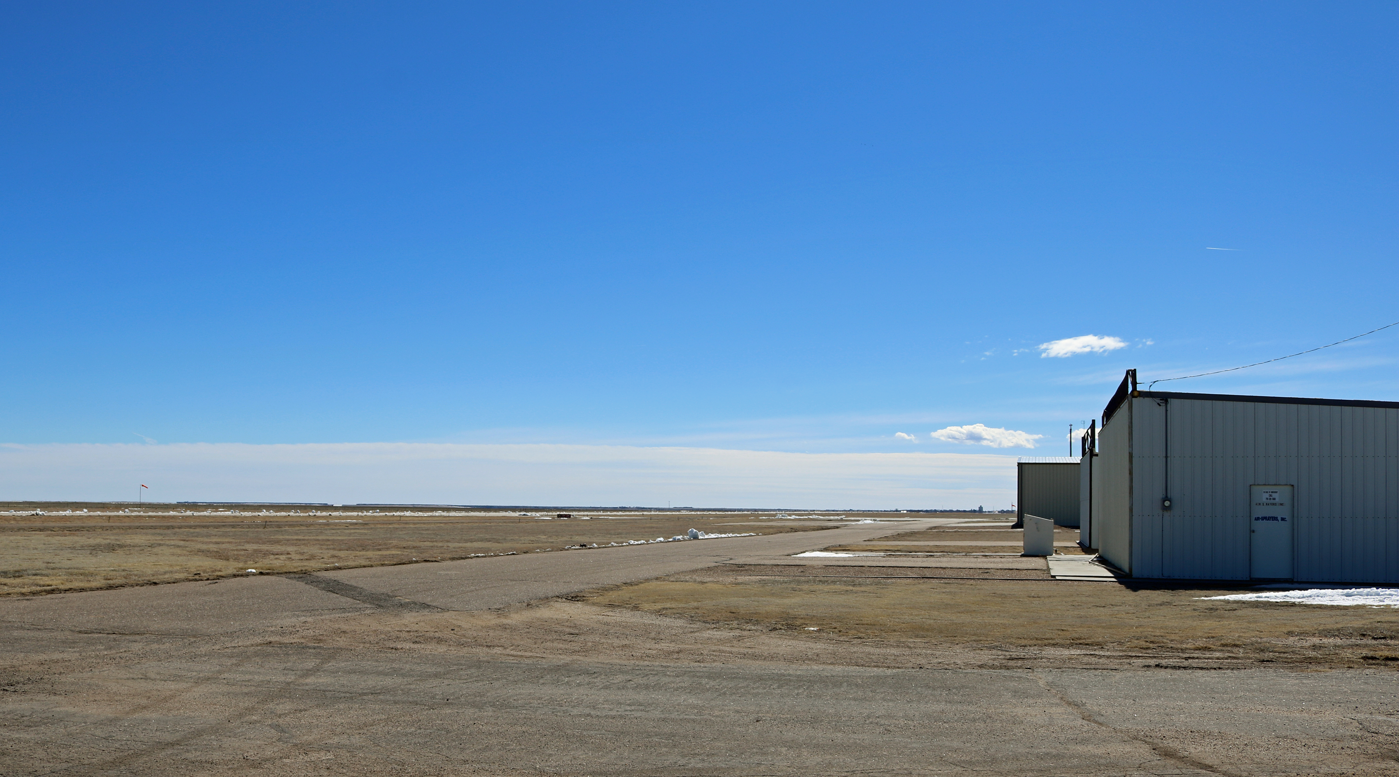 The Springfield Municipal Airport, located along US-287 / US-385, about 3-4 miles north of Springfield, Colorado. Its FAA Identifier is 8V7.